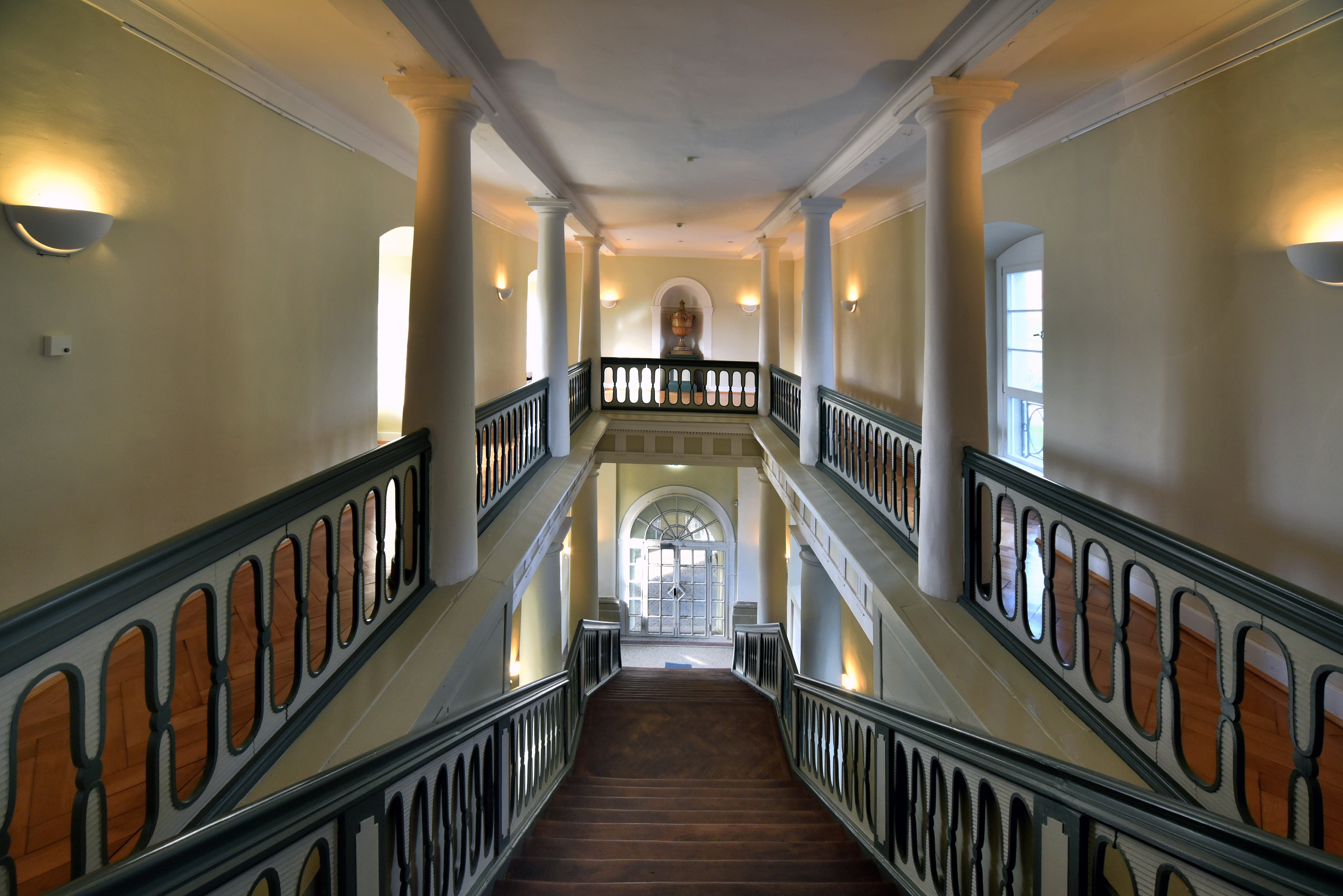 Stairs in the castle of German Teutonic Bad Mergentheim.